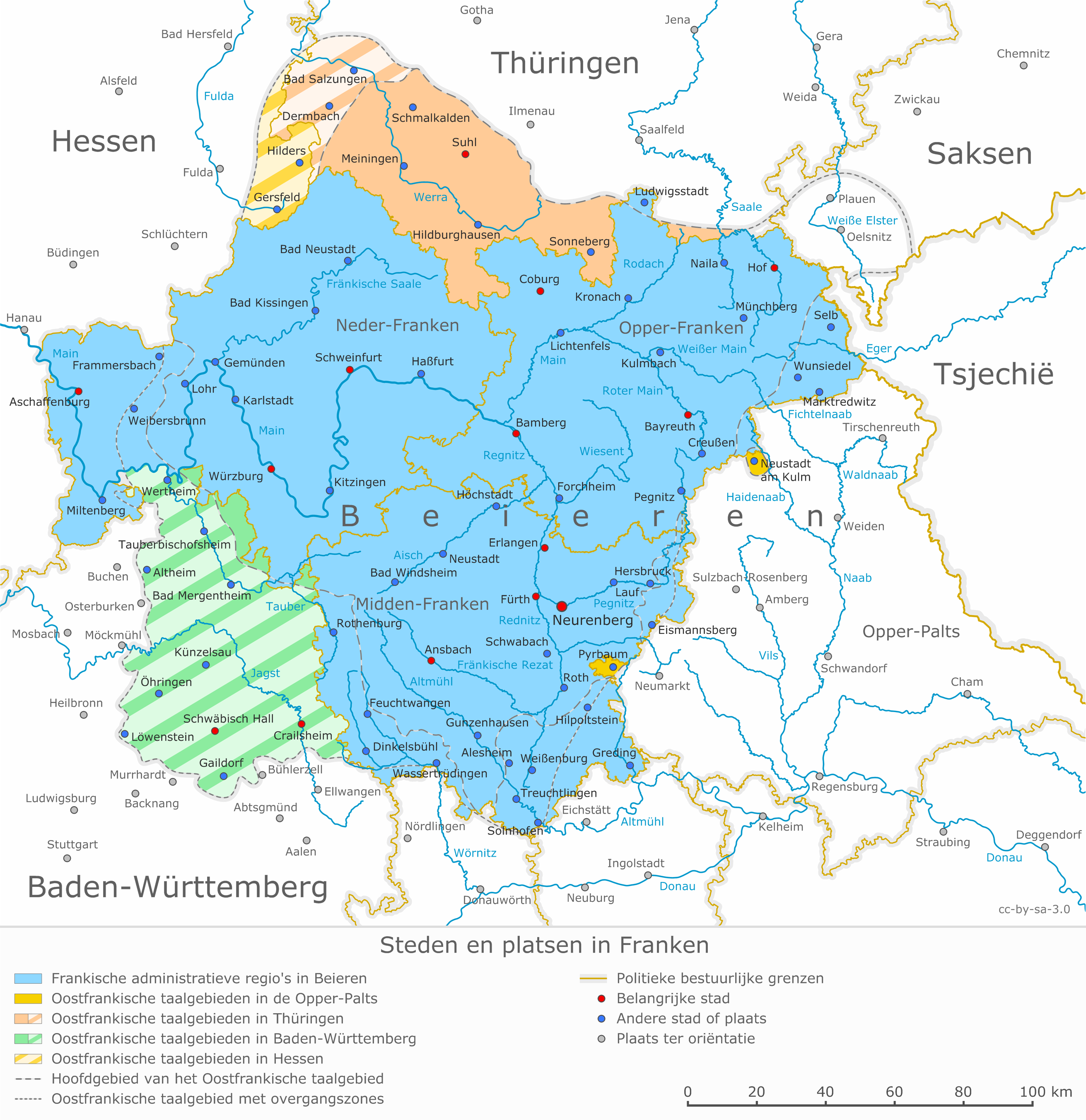 Cities and places in Franconia